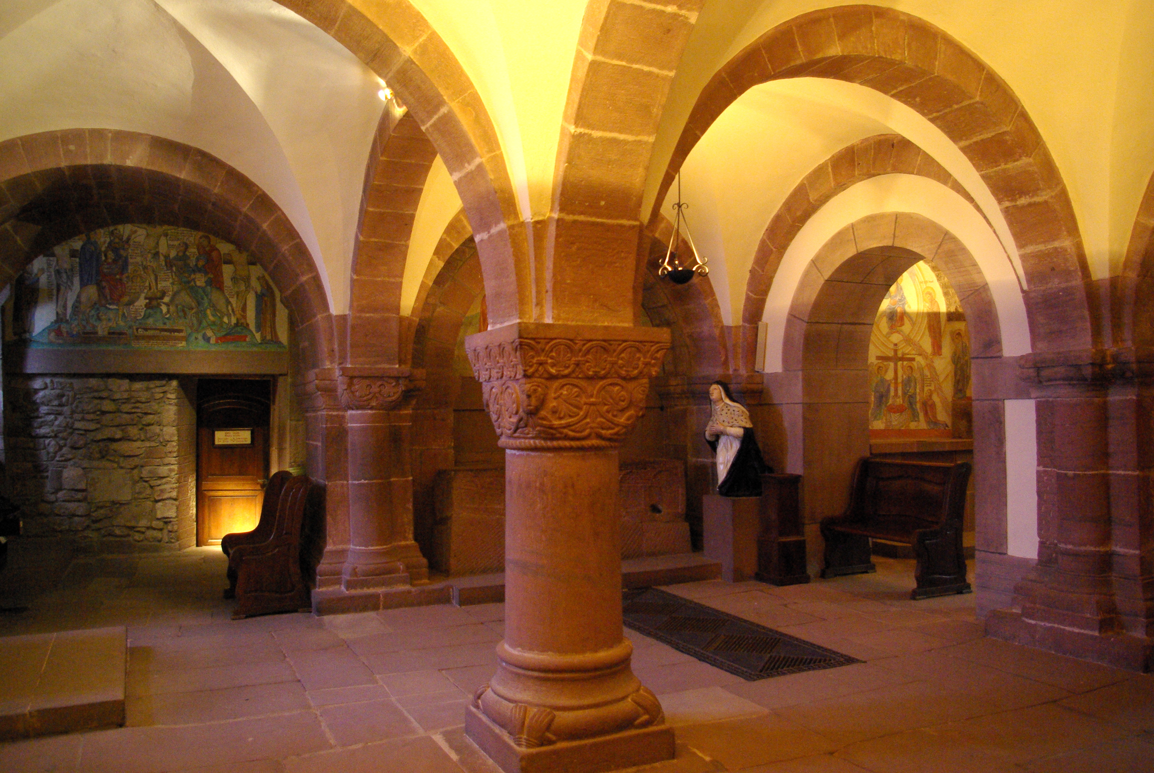 Mont Sainte-Odile